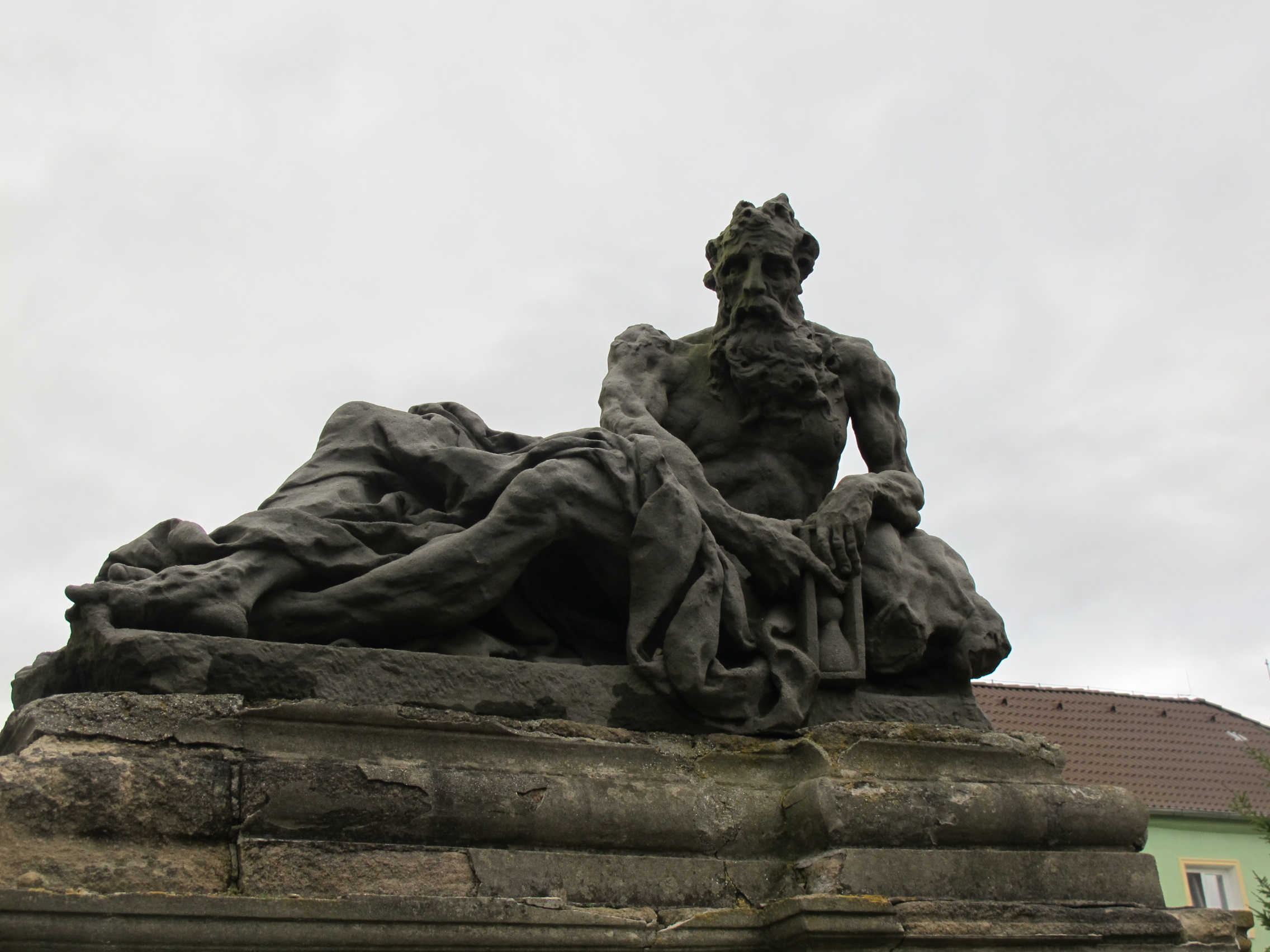 The allegory of Time (Chronos) by M. B. Braun in Cítoliby (Czech Republic)